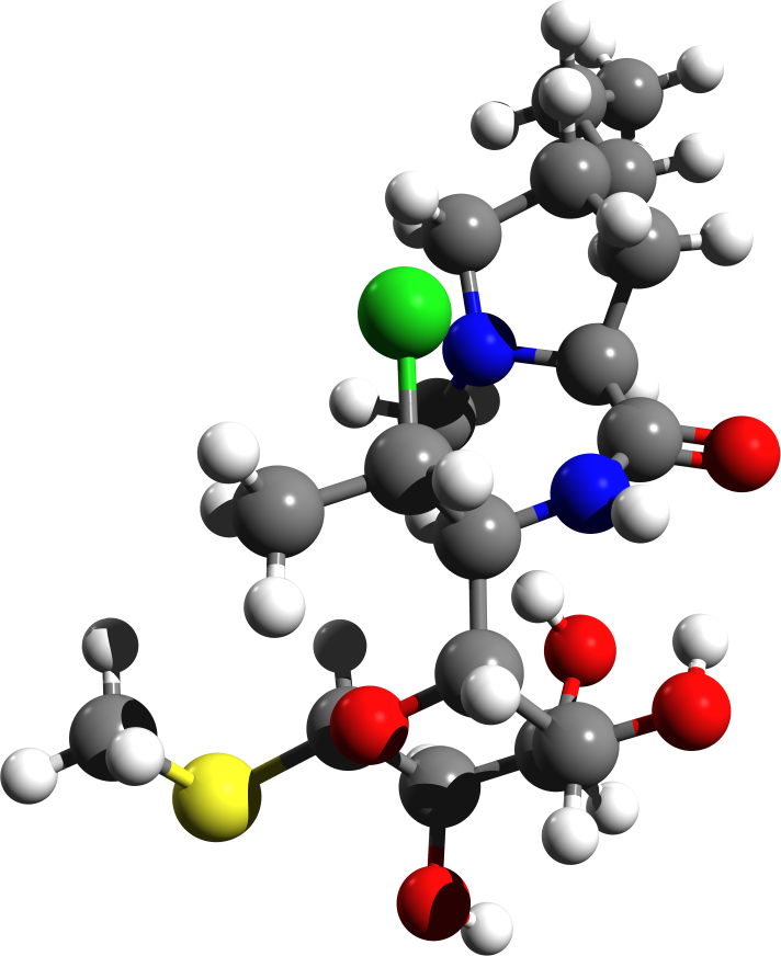 Clindamycin structure